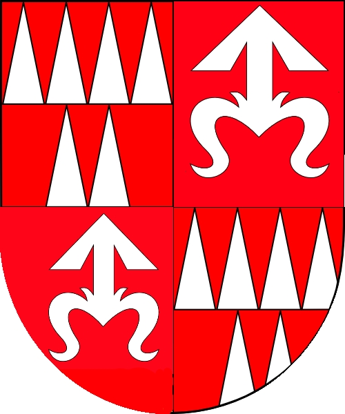 Coat of arms of Lacek_z_Kravař, bishop of Olomouc, (1403-1408)